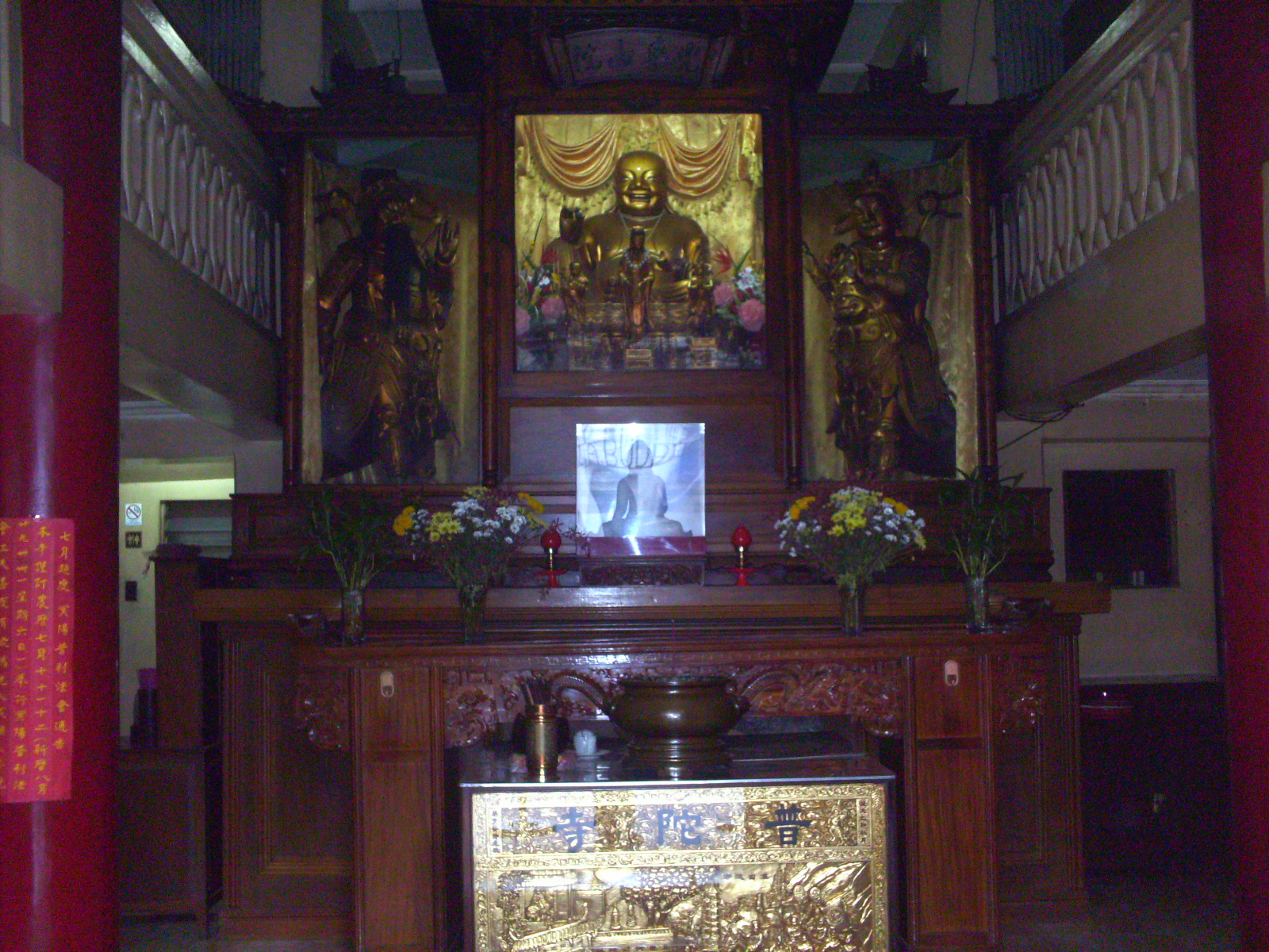 Buddhist Temply in Masangkay Street in Tondo.